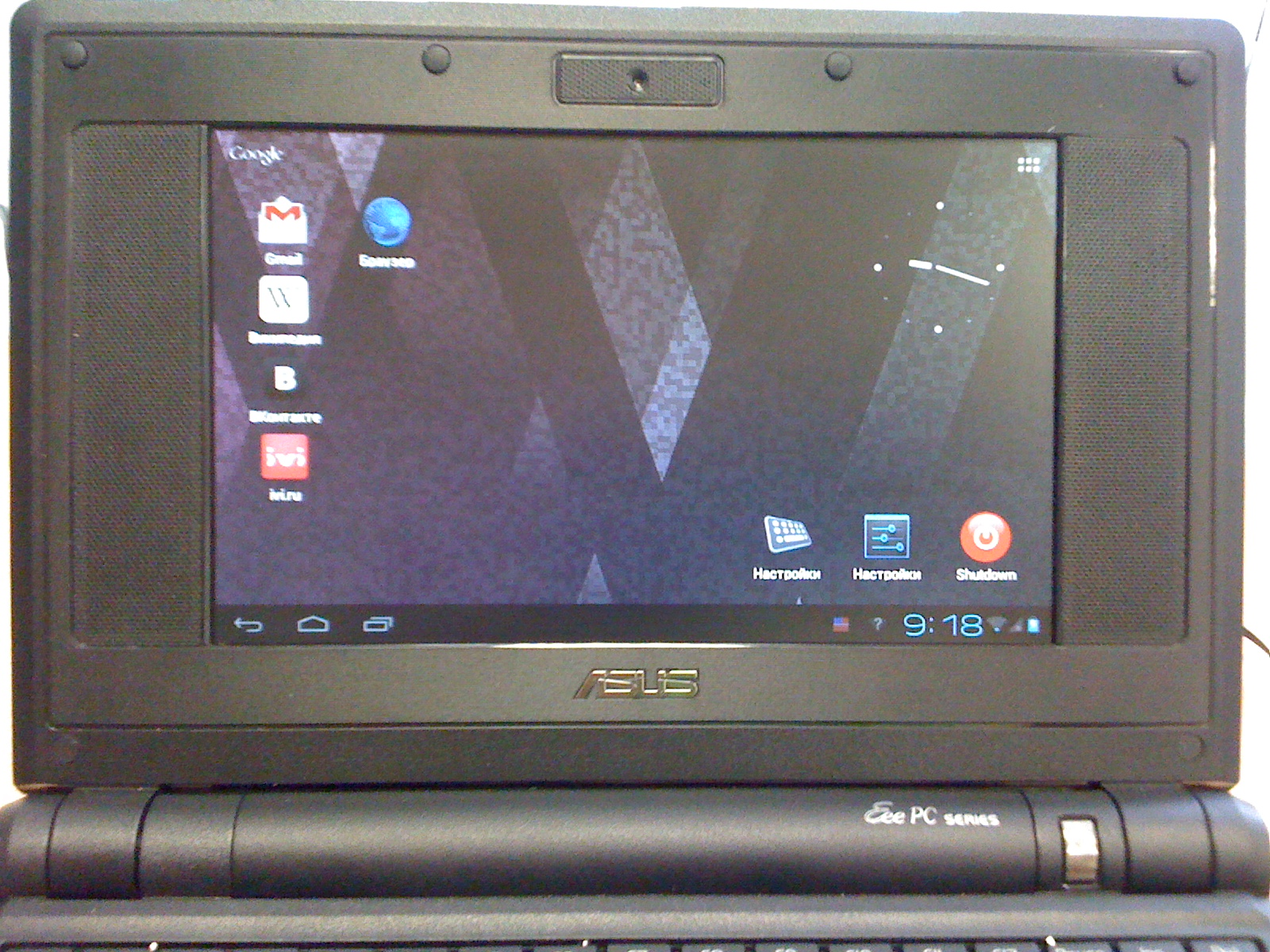 Android x86 operation system installed on ASUS EeePC 701 4G netbook.